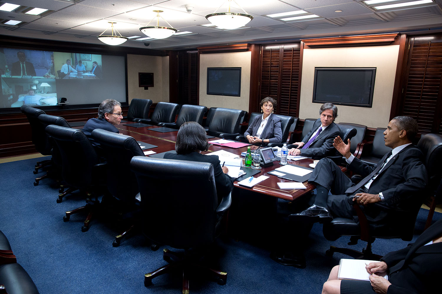 President Barack Obama participates in a video teleconference with Chancellor Angela Merkel of Germany, President François Hollande of France, Prime Minister David Cameron of the United Kingdom, and Prime Minister Matteo Renzi of Italy, in the Situation Room of the White House, July 28, 2014. Seated clockwise from the President are: National Security Advisor Susan E. Rice; Charles Kupchan, Senior Director for European Affairs; Caroline Atkinson, Deputy National Security Advisor for International Economics; and Tony Blinken, Deputy National Security Advisor. (Official White House Photo by Pete Souza)